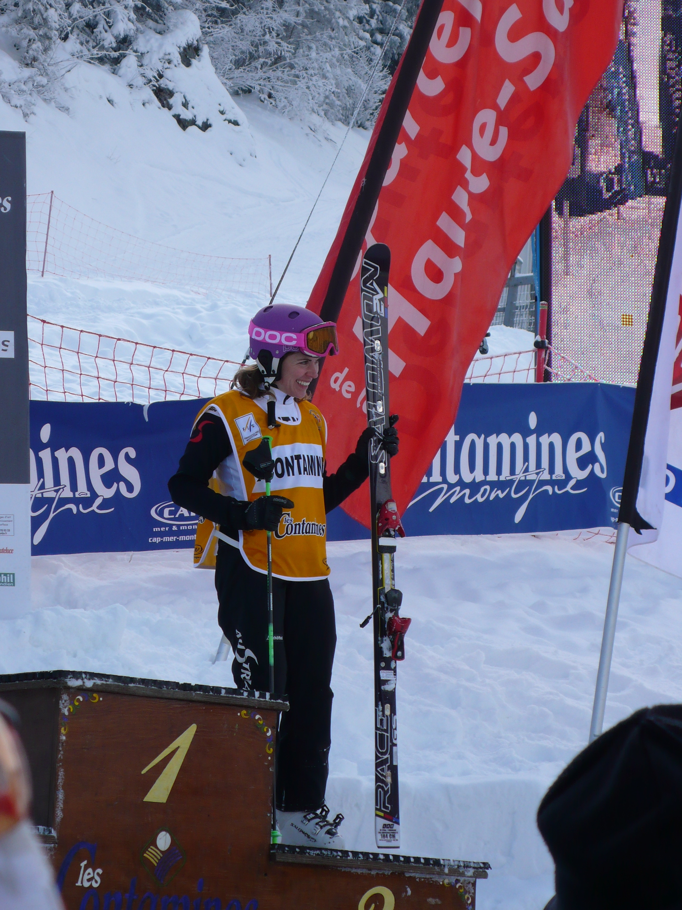 Ski Cross World Cup at Les Contamines-Montjoie : Karin Huttary